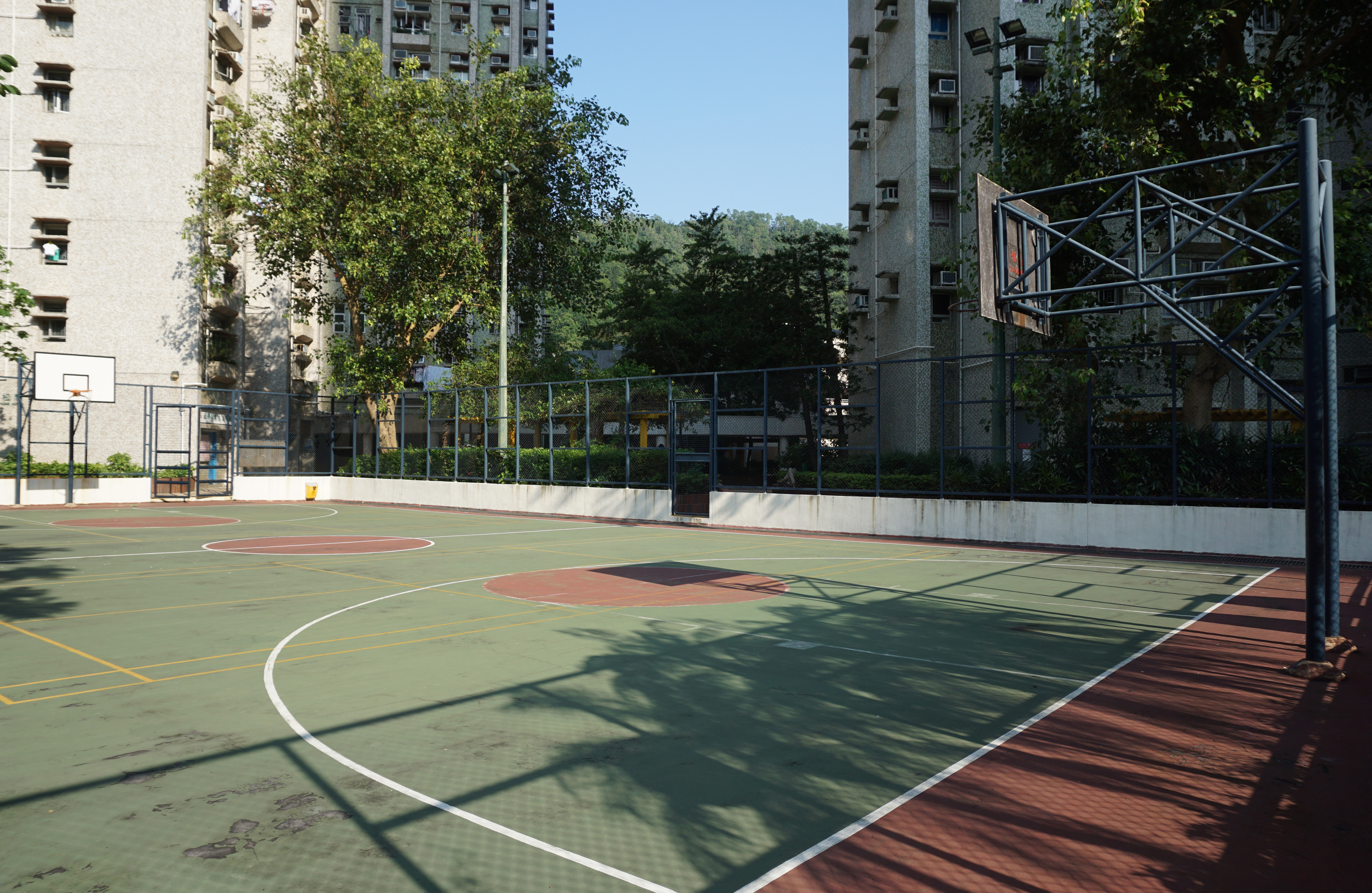 Yan Ming Court in Po Lam, Hong Kong.